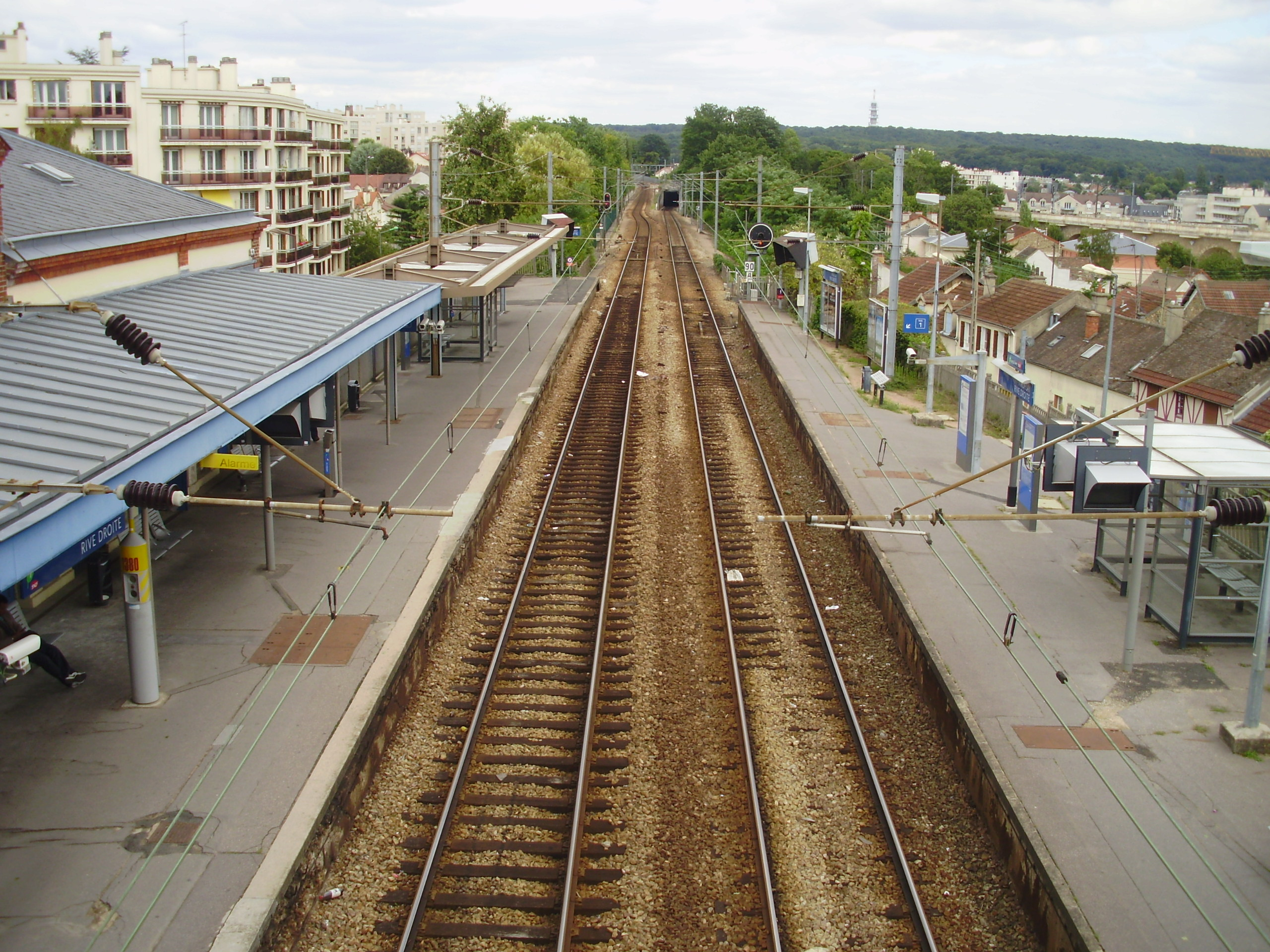 Viroflay - Rive Droite station, in Viroflay, Yvelines, France (view of the platforms from the footbridge by looking to Chaville - Rive Droite with, in the background, on the right track, the exit of the flying junction under the bifurcation de Viroflay)